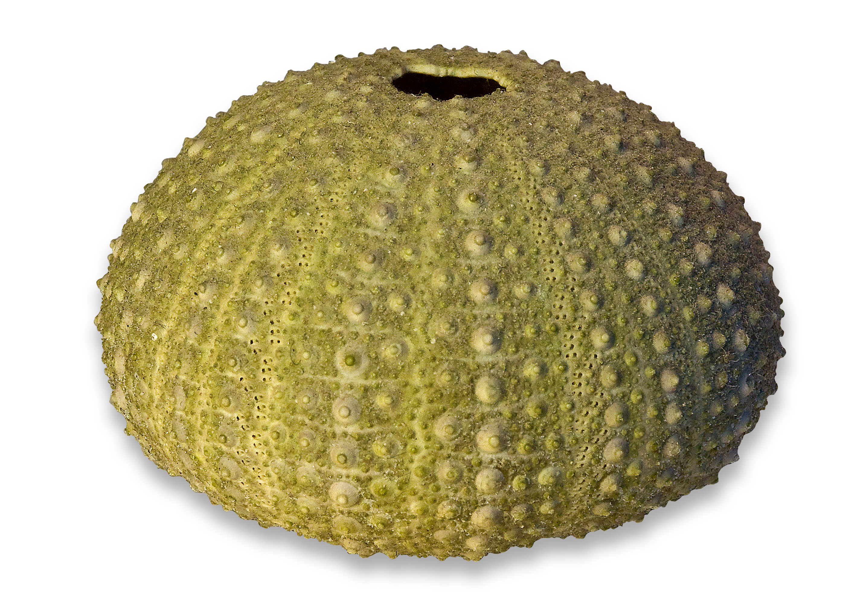 Paracentrotus lividus